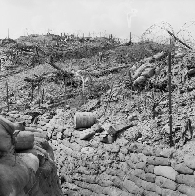 AWM Caption:Korea. 13 July 1953. This desolate landscape greets the soldiers of the 2nd Battalion, The Royal Australian Regiment (2RAR), as daylight dawns on their long night vigil. The scene, reminiscent of similar trench scenes from the First World War, is part of the notorious Hook feature, the site of many bitter and bloody battles during the Korean war.